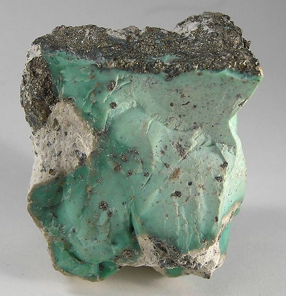 Variscite, Pyrite Locality: Cole Mine (Cole shaft; Cole No. 3), Bisbee, Warren District, Mule Mts, Cochise County, Arizona, USA (Locality at ) Size: 5.4 x 4.8 x 4.6 cm. This is an old Bisbee variscite, and a super-rich and solid one. There is just a small amount of matrix here - this is almost all blue-green variscite. Weighs 165 grams.